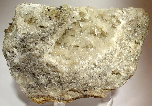 Barytocalcite Locality: Blagill Mine, Nent Valley, Alston Moor District, North Pennines, North and Western Region (Cumberland), Cumbria, England, UK (Locality at ) An OLD-TIME, showy, CABINET specimen with a centrally-placed, 5.5 cm diagonal vug in massive barite matrix histing lustrous, translucent and colorless blades of this rare species. Ex Richard Barstow Collection. 10.7 x 7.0 x 4.8 cm